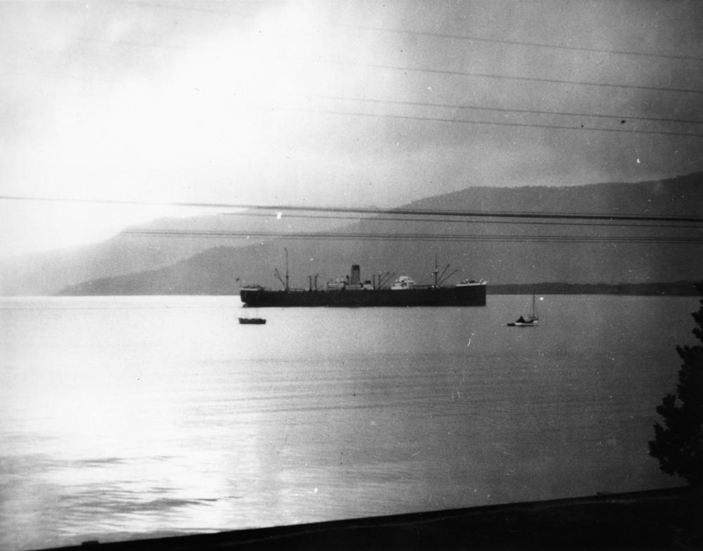 Ulysses (ship) Blue Funnel liner Ulysses, entering Cairns Harbour. (Description supplied with photograph.).